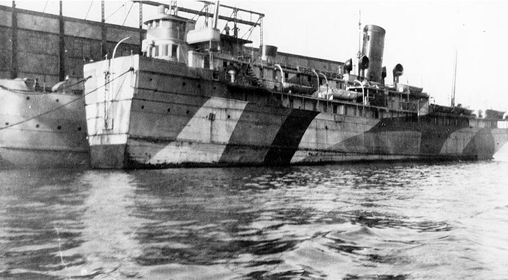 USS Blue Ridge (ID-2432) wearing camouflage paint and with her bow removed for passage through the locks between the Great Lakes and the St. Lawrence River, circa summer 1918. Originally the Great Lakes passenger steamer Virginia, this ship was purchased by the US Navy in May 1918 and renamed Blue Ridge on 1 June. Following her trip to salt water, she was commissioned on 17 October 1918.